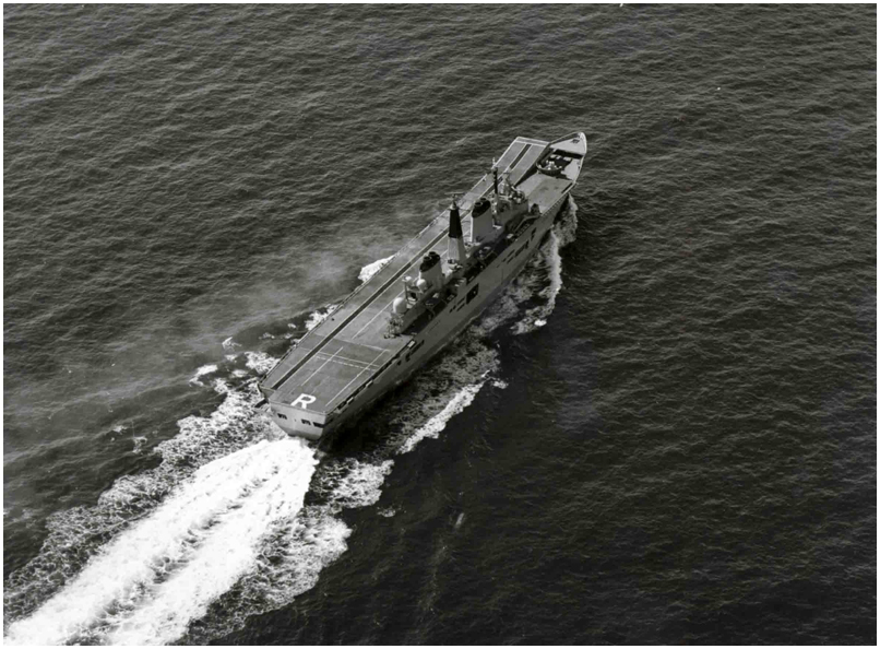 HMS Ark Royal was the former flagship of the Royal Navy. One of three Invincible class aircraft carriers she was affectionately known as The Mighty Ark. Her keel was laid by Swan Hunter at Wallsend on 7th December 1978 and she was launched on 20th June 1981 and completed in 1985. Major deployments included the Bosnian war (1993) and the invasion of Iraq (2003). More recently, she assisted in the repatriation of air travellers stranded by the 2010 volcanic eruption. Most photographs and images in this set are taken from the Swan Hunter Collection held by Tyne and Wear Archives Service. Ref: TWAS:ds-swh-4-ph-8-51 (Copyright) We're happy for you to share this digital image within the spirit of The Commons. Please cite 'Tyne & Wear Archives & Museums' when reusing. Certain restrictions on high quality reproductions and commercial use of the original physical version apply though; if you're unsure please . To purchase a hi-res copy please quoting the title and reference number.